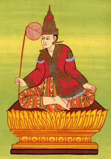 Taungngu Mingaung nat (spirit), th in the official pantheon of Burmese nats